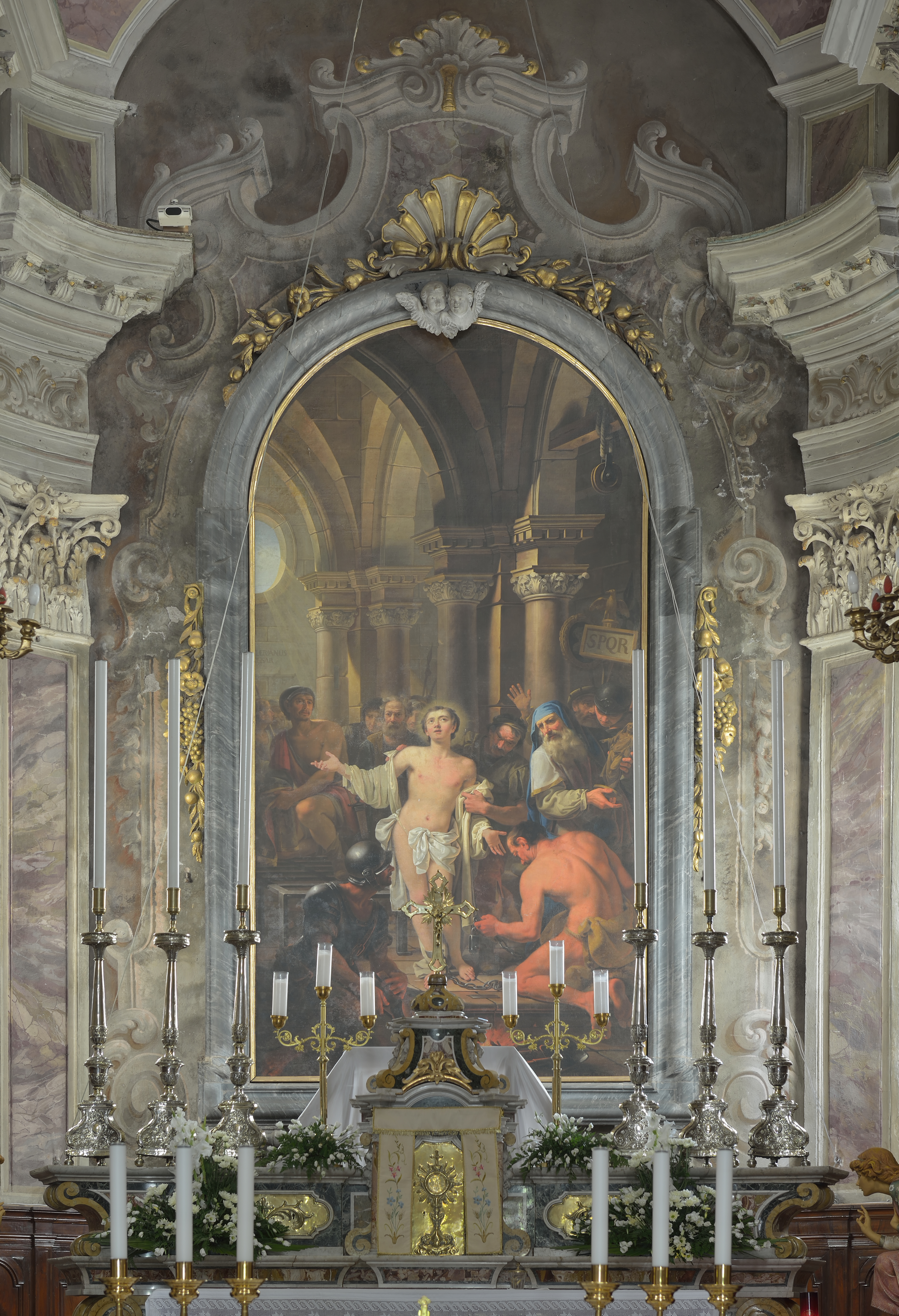 Retable with martyrdom of Saint Lawrence by Lodovico Gallina in the parish church of Saint Lawrence in Carzago Riviera in Italy.